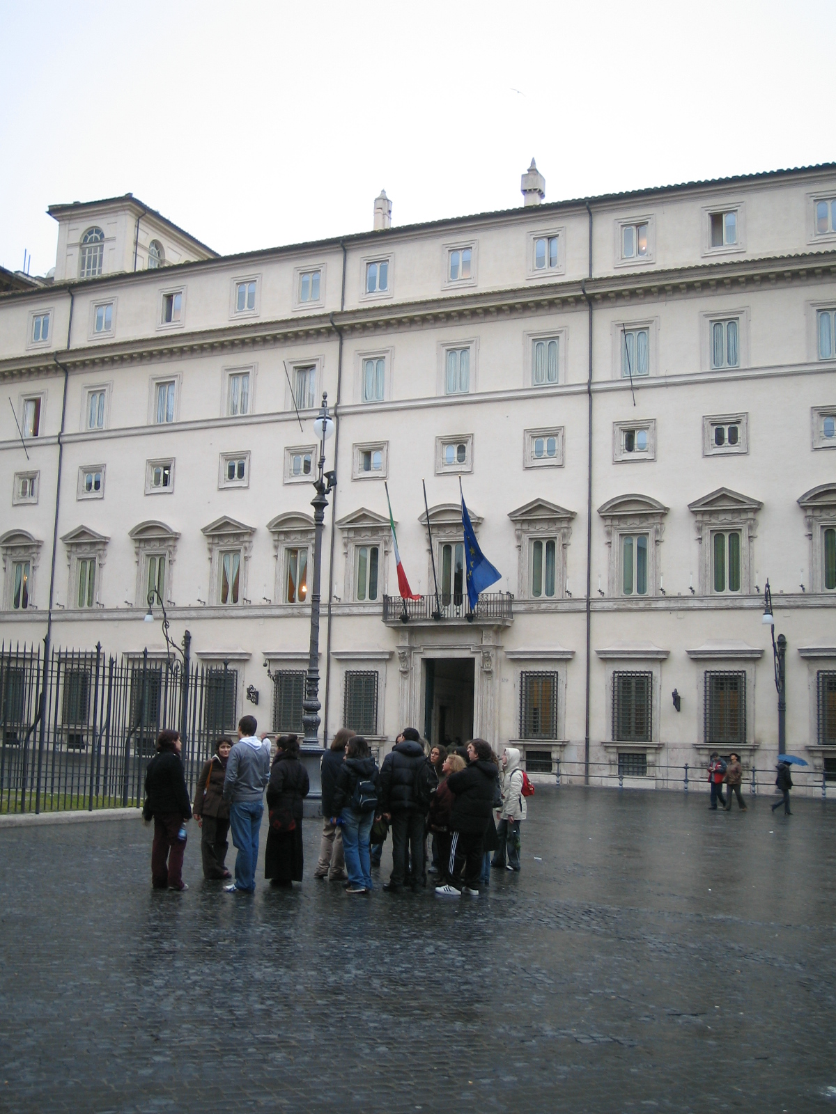 Author: Lorenzo Tomasi